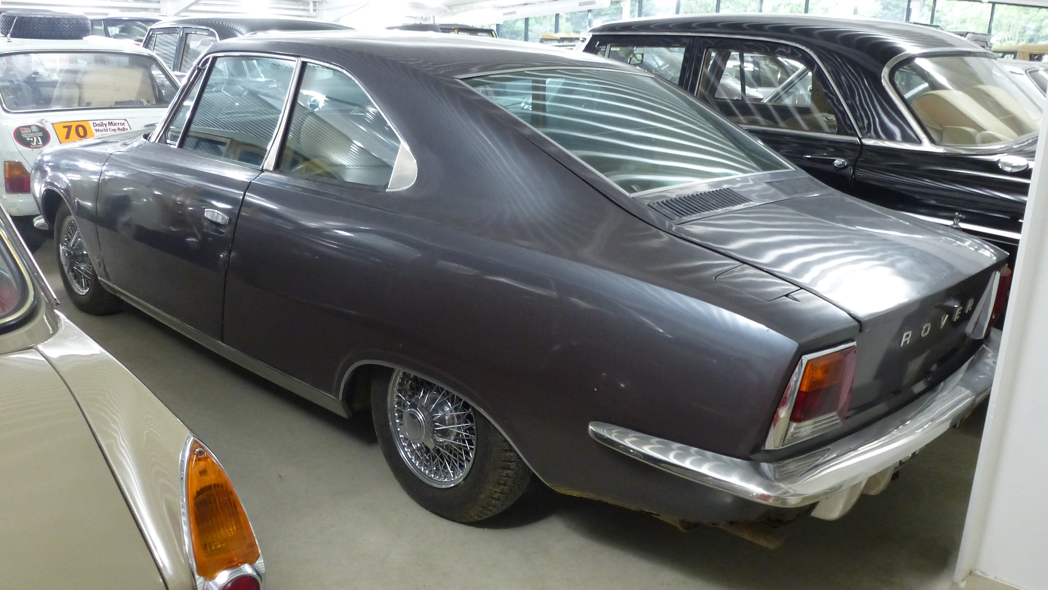 Rover-Alvis Gladys 1966